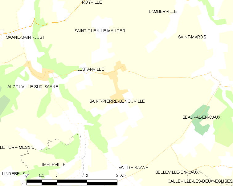 Map of French municipality Saint-Pierre-Bénouville